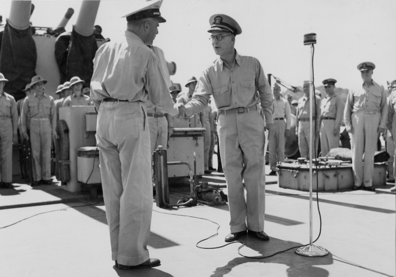 Rear Adm. Hayler (center) relieves “Tip” Merrill (left), 26 March 1944, while Montpelier’s marine detachment stands at attention under the guns of Turret IV. Note the marines wearing Hawley sun helmets. (U.S. Navy Photograph 80-G-232134, National Archives and Records Administration, Still Pictures Division, College Park, Md.)